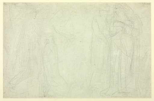 Pencil sketch for 'Tiriel Supporting Myratana', an illustration for the poem Tiriel